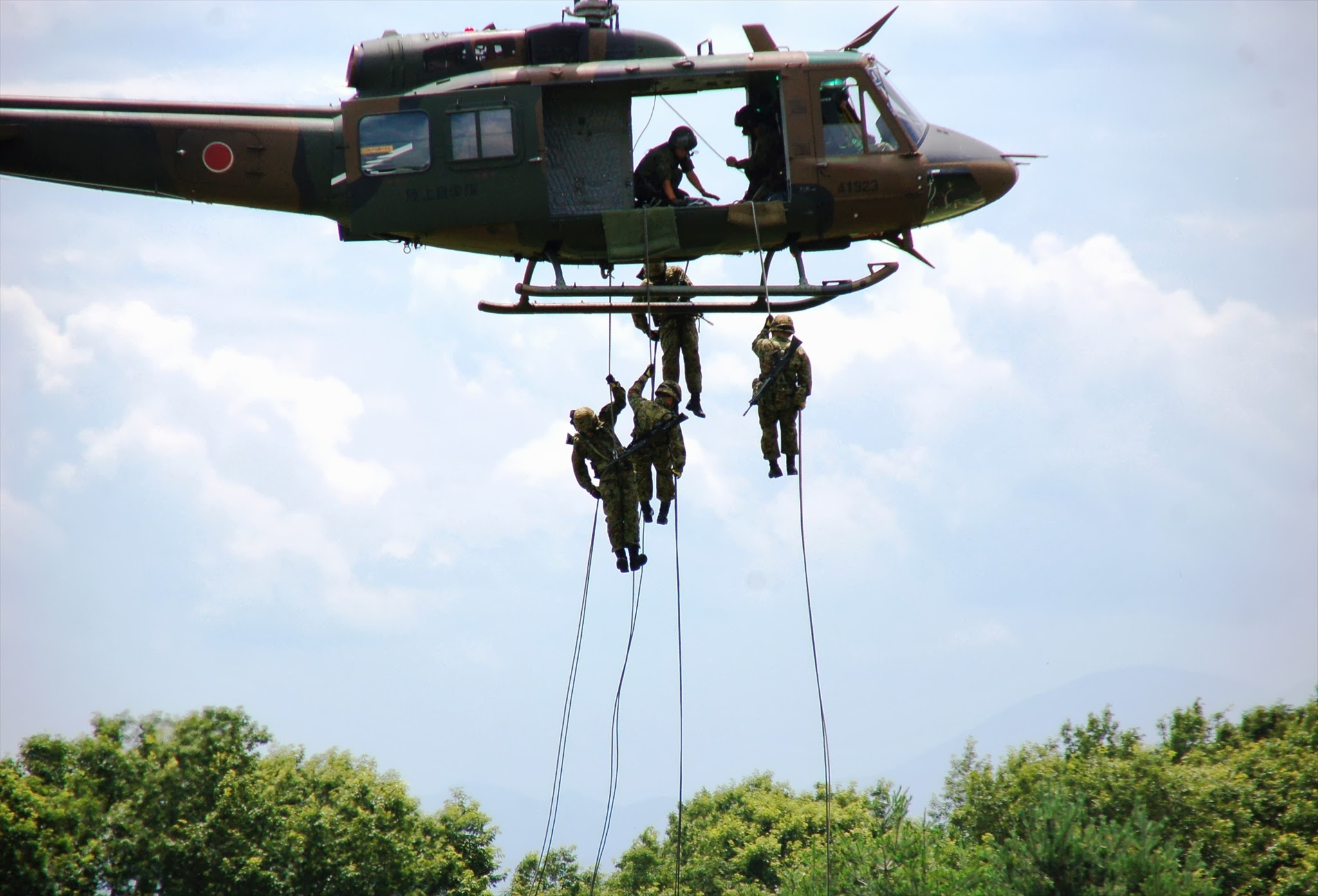 Title 48i平成２５年度 第１次連隊集中訓練及び部隊間家族コミュニティーリぺリング.JPG Album 教育訓練等 第１次連隊集中訓練（第４８普通科連隊・相馬原）